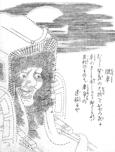 Oboro-guruma (朧車, a ghostly oxcart with the face of its driver) from the Konjaku Hyakki Shūi (今昔百鬼拾遺)